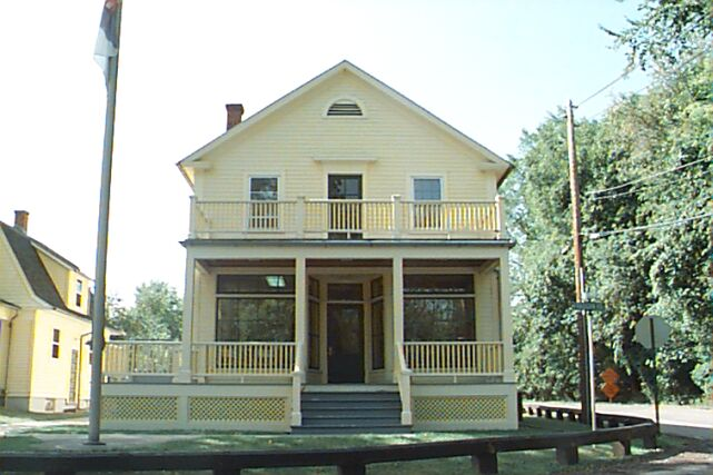 Jaite Company Store and Post Ofice, now the park headquarters for Cuyahoga Valley National Park, Ohio, USA